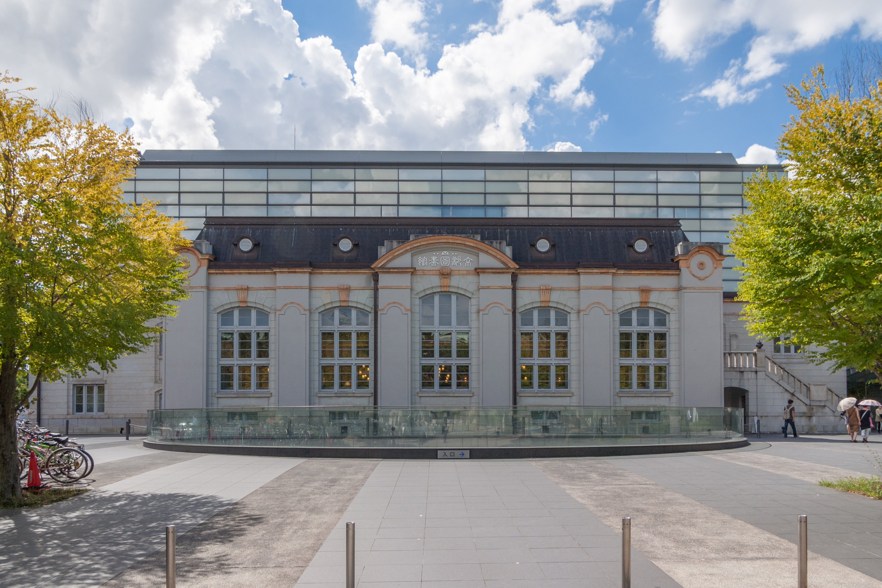 Photograph of Kyoto Prefectural Library in Sakyo-ku, Kyoto, Kyoto Prefecture, Japan.